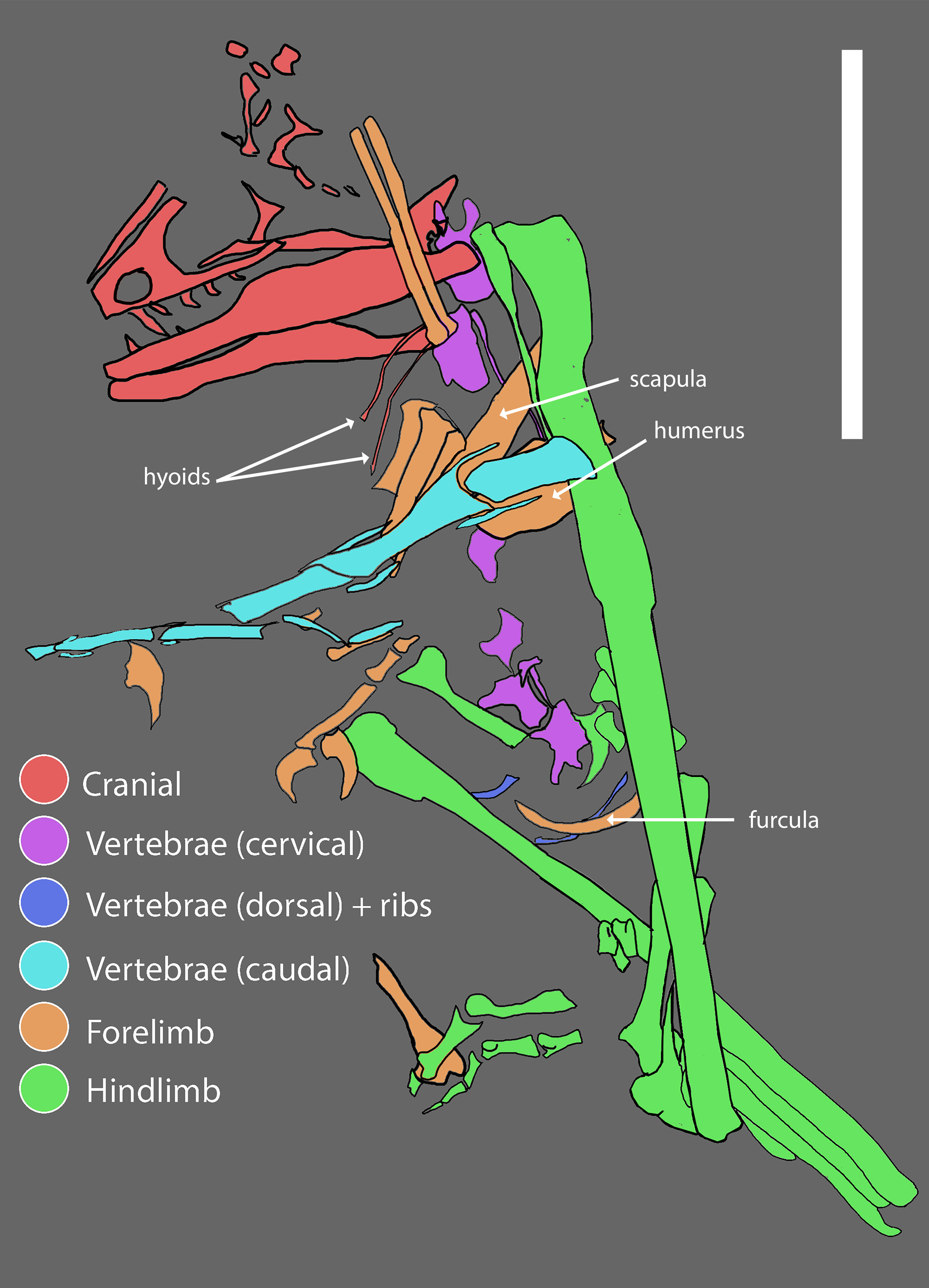 Reconstructed quarry map of WYDICE-DML-001. Association of skeletal elements assembled from 3D scans of specimen blocks prior to final mechanical preparation. Scale bar = 6 cm. Scale bar = 25 cm.